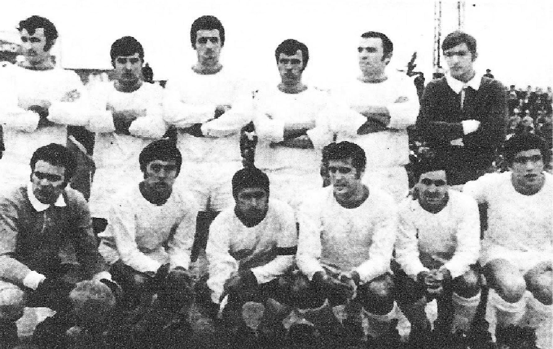 Photograph of Huracán de Ingeniero White in 1968.